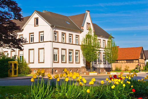 Town hall of Schwanau (Ottenheim)